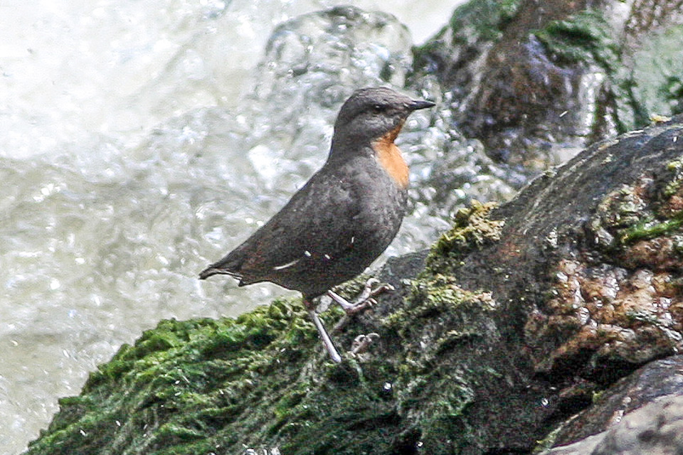 Journey Tucuman to Tafi Valle